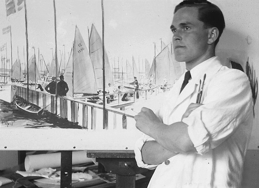 Illustrator Helmuth Ellgaard 1936 (behind him a painting for the 1936 Olympic Games in Kiel 1936)